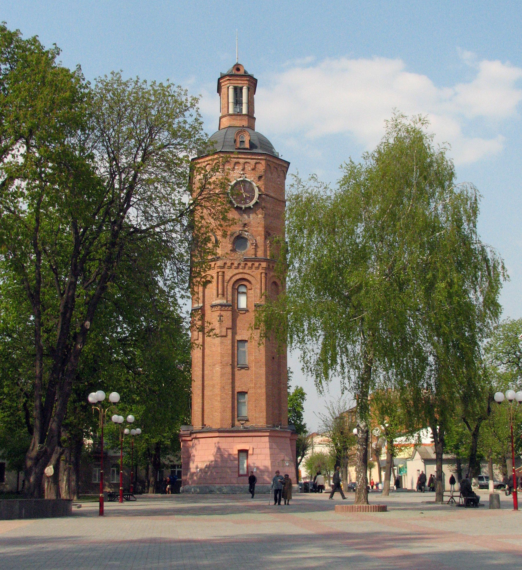 Water tower in Vinnytsia, Ukraine